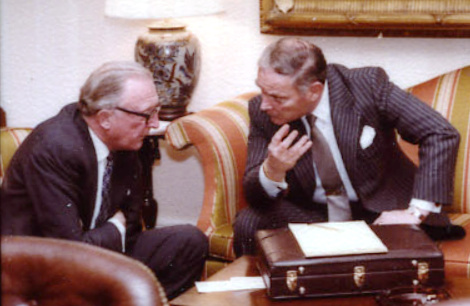 Peter Carington (then UK Secretary of State for Foreign and Commonwealth Affairs) and Alexander Haig (then US Secretary of State) discussing during visit of Margaret Thatcher to the United States